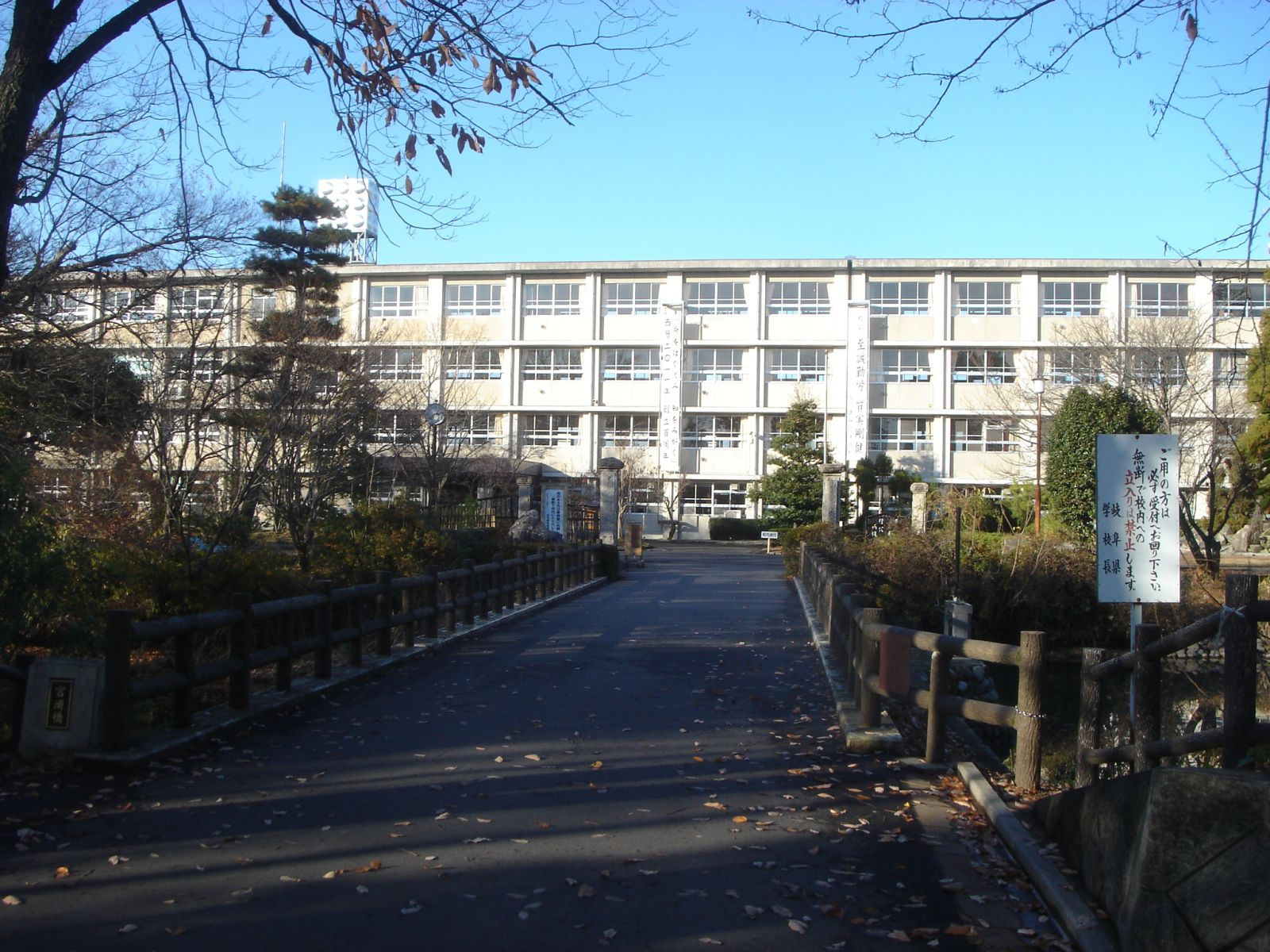 Gifu Prefectural Kamo Agriculture_and_Forestry High School（岐阜県立加茂農林高等学校）,Minokamo,Gifu,Japan(岐阜県美濃加茂市)で撮影。